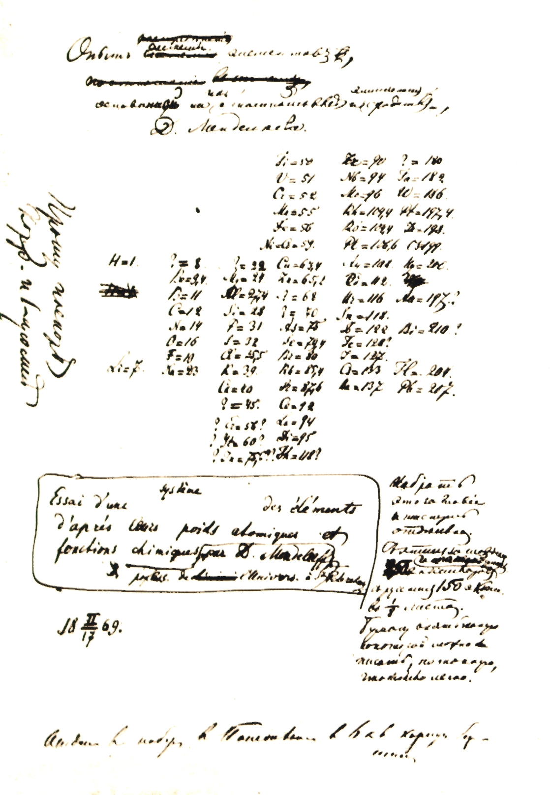 Handwritten version of elements system (Mendeleev's periodic law), based on atomic weight and chemical resemblance. D.Mendeleev 17.02.1869